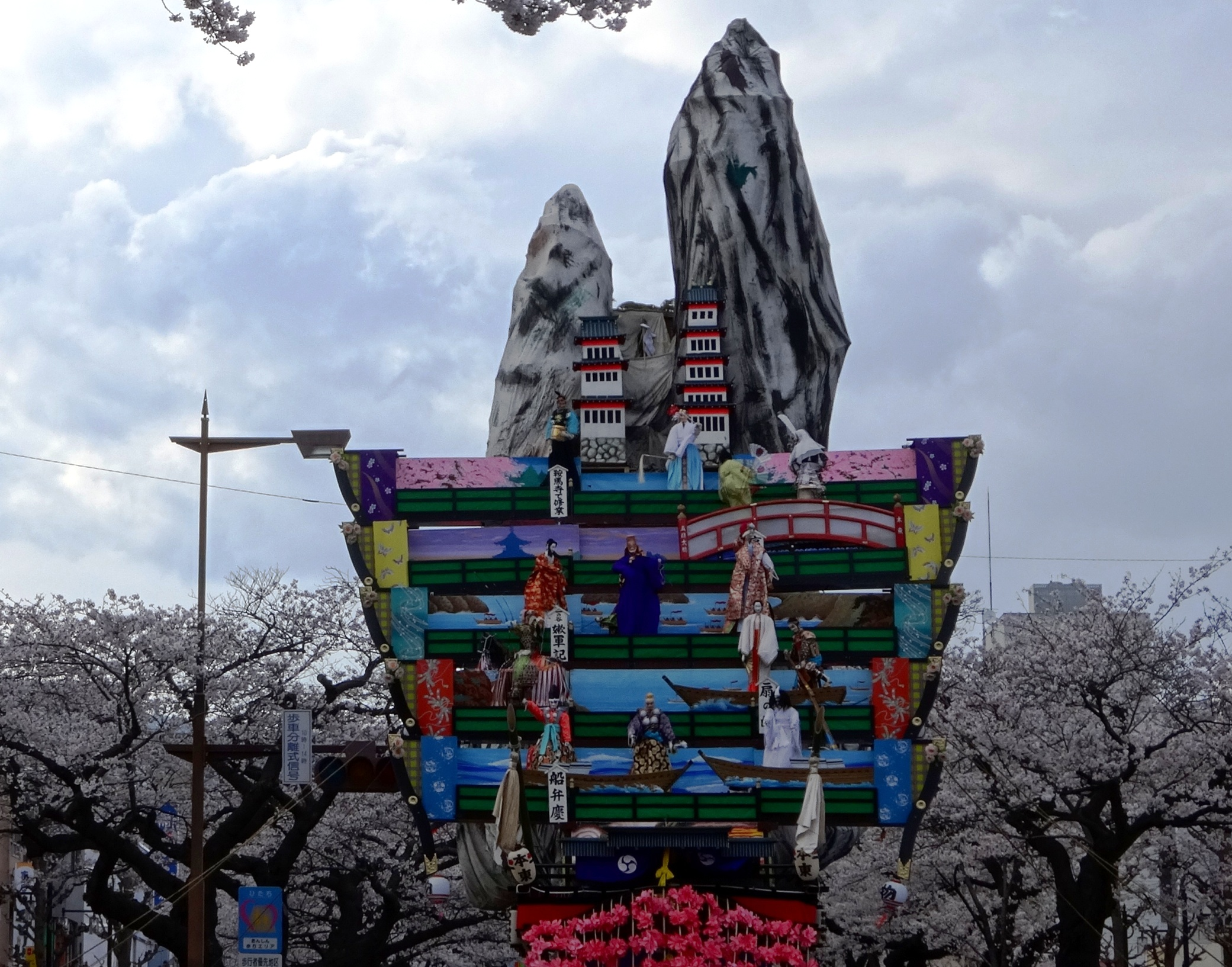 Hitachi-fūryūmono, mountain with puppets. At the sakura festival in Hitachi.